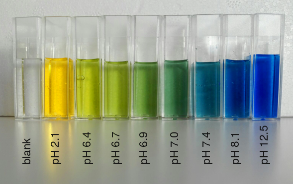 Photo of solutions of bromothymol blue at different pH.